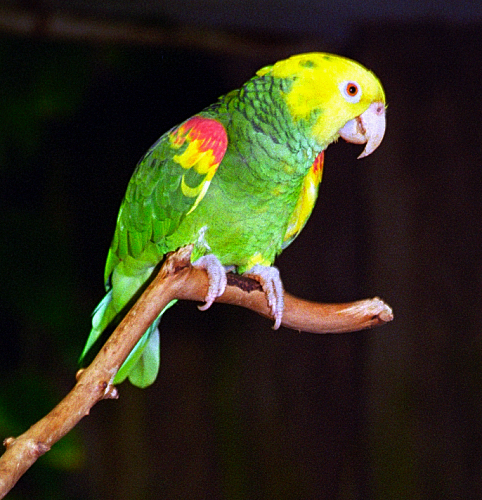 Yellow-headed Amazon at Vancouver Aquarium, Canada.